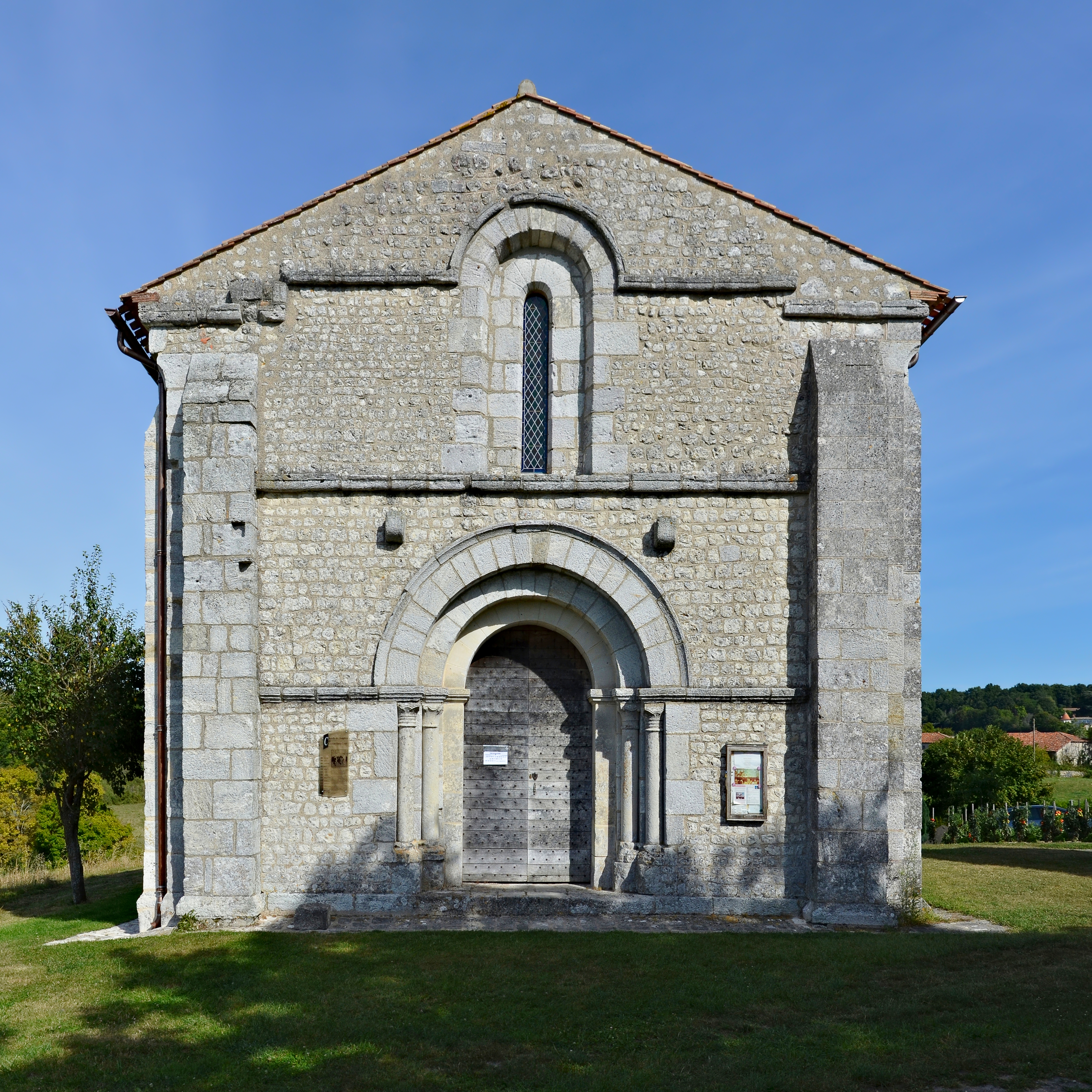 Facade of the Templar chapel (12th century), Cressac-Saint-Genis, Charente, France, .